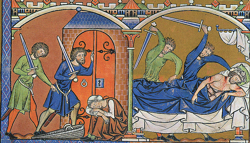 Maciejowski Bible, Leaf 38. Two captains of the guard in Ishbosheth's camp sneak into his house and slay him while he sleeps.